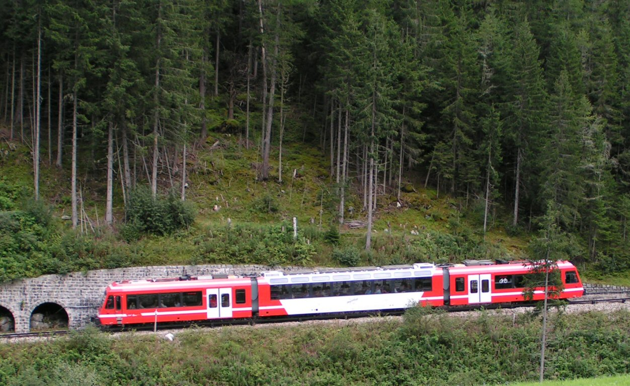 Z 850 EMU between Vallorcine and Le Châtelard